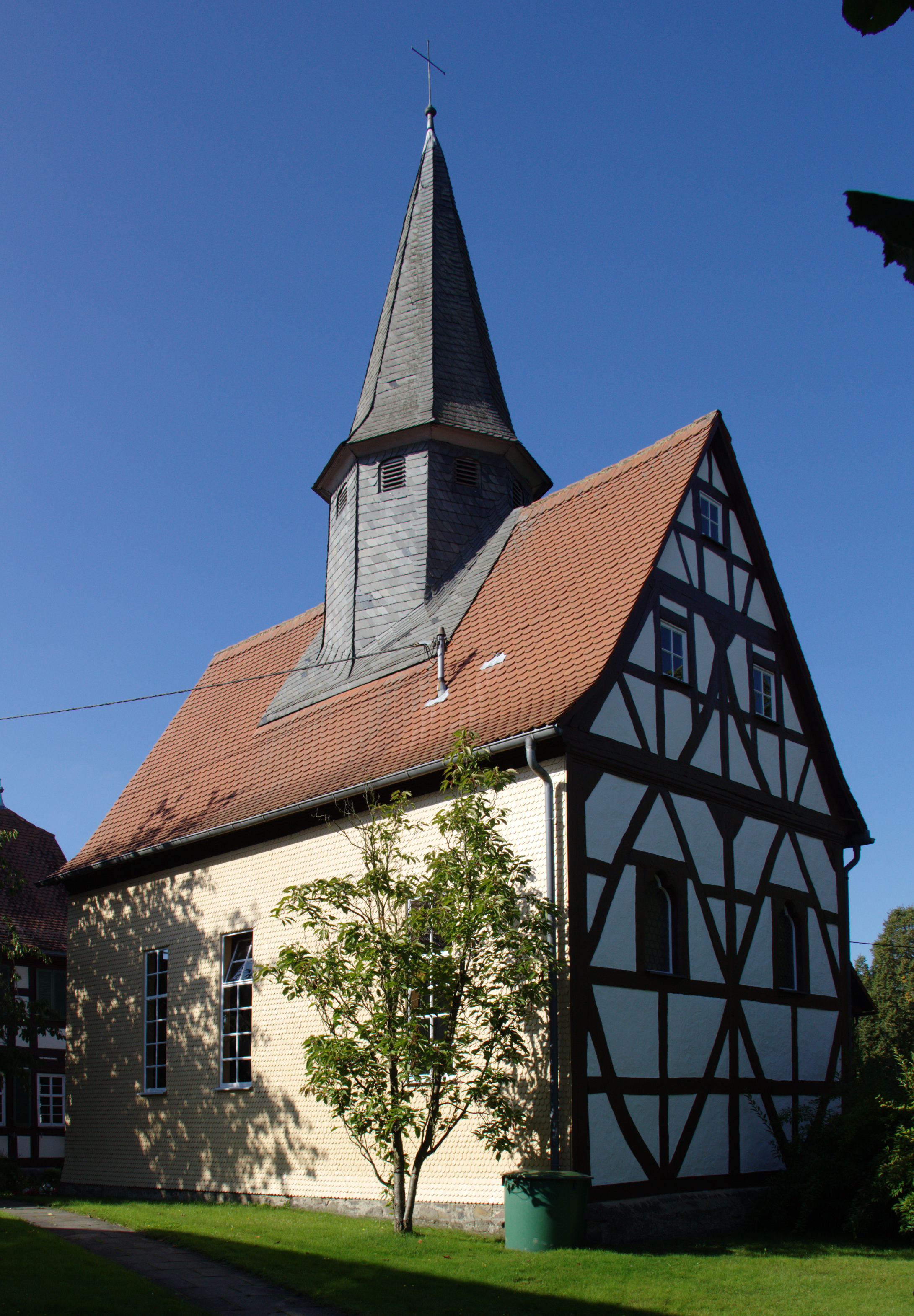 Protestant church in Lardenbach Am Larbach, Gruenberg, Hesse, Germany